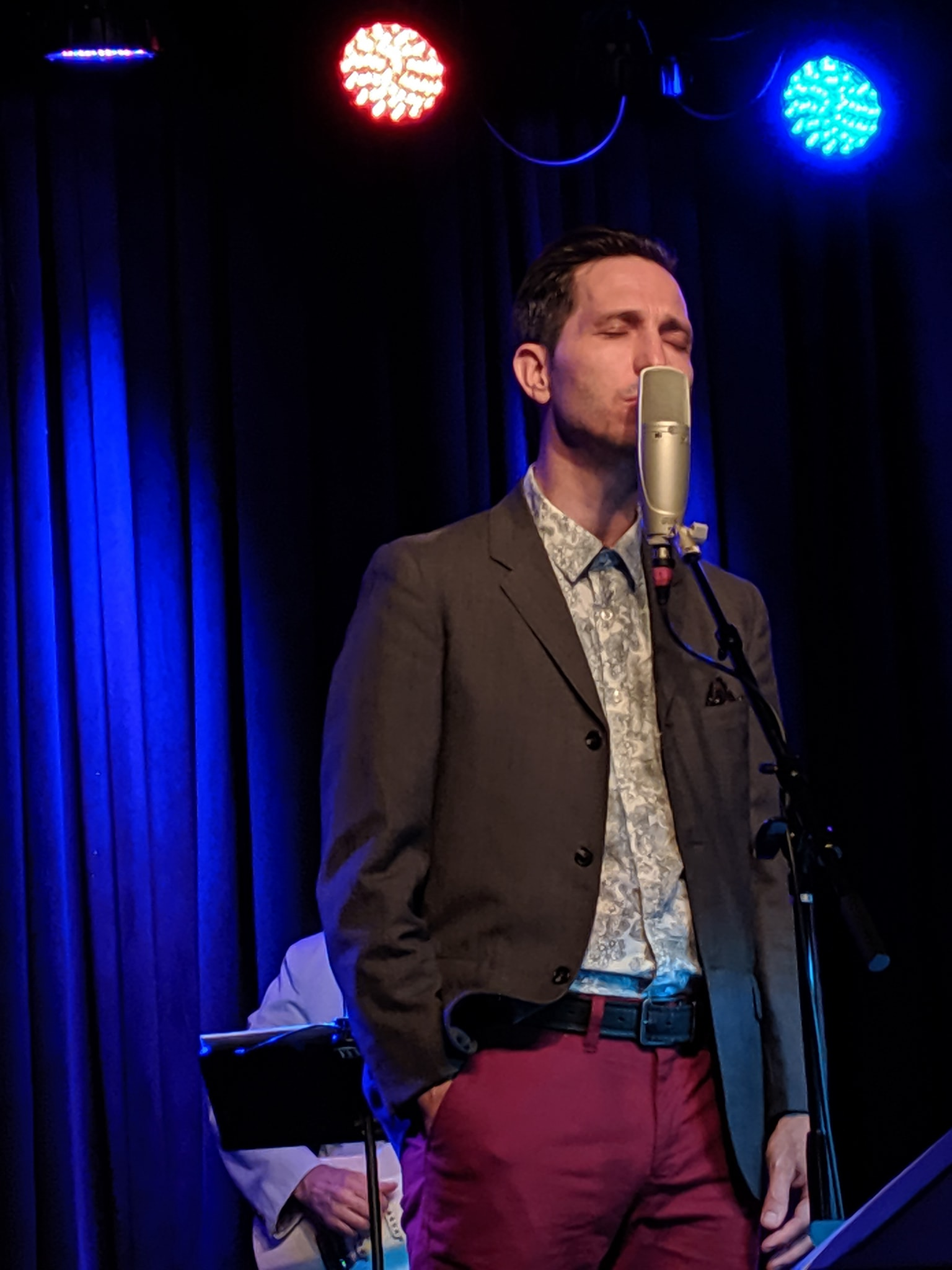 Django at the mic during the Chris Stamey directed concert in August 2019 at Cat's Cradle, Carrboro, NC